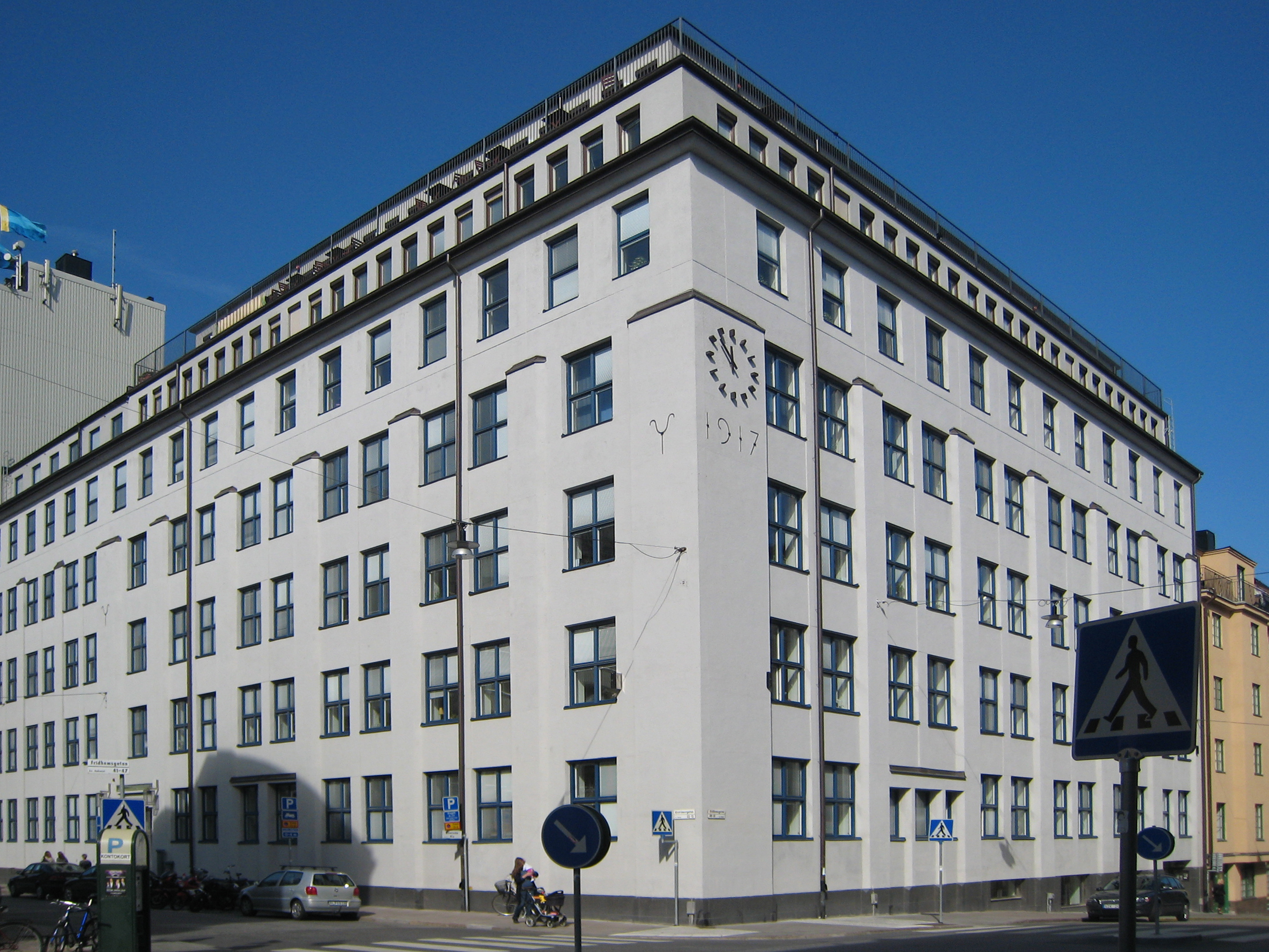 Skutan 10 på Alströmergatan, Kungsholmen Stockholm. Uppförd som textilfabrik